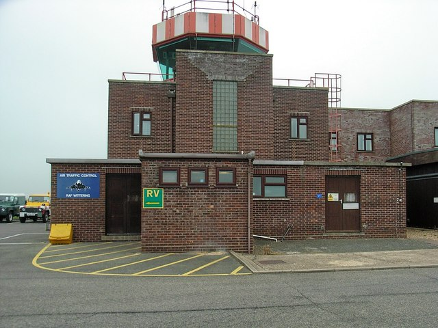 Air Traffic Control Tower RAF Wittering.